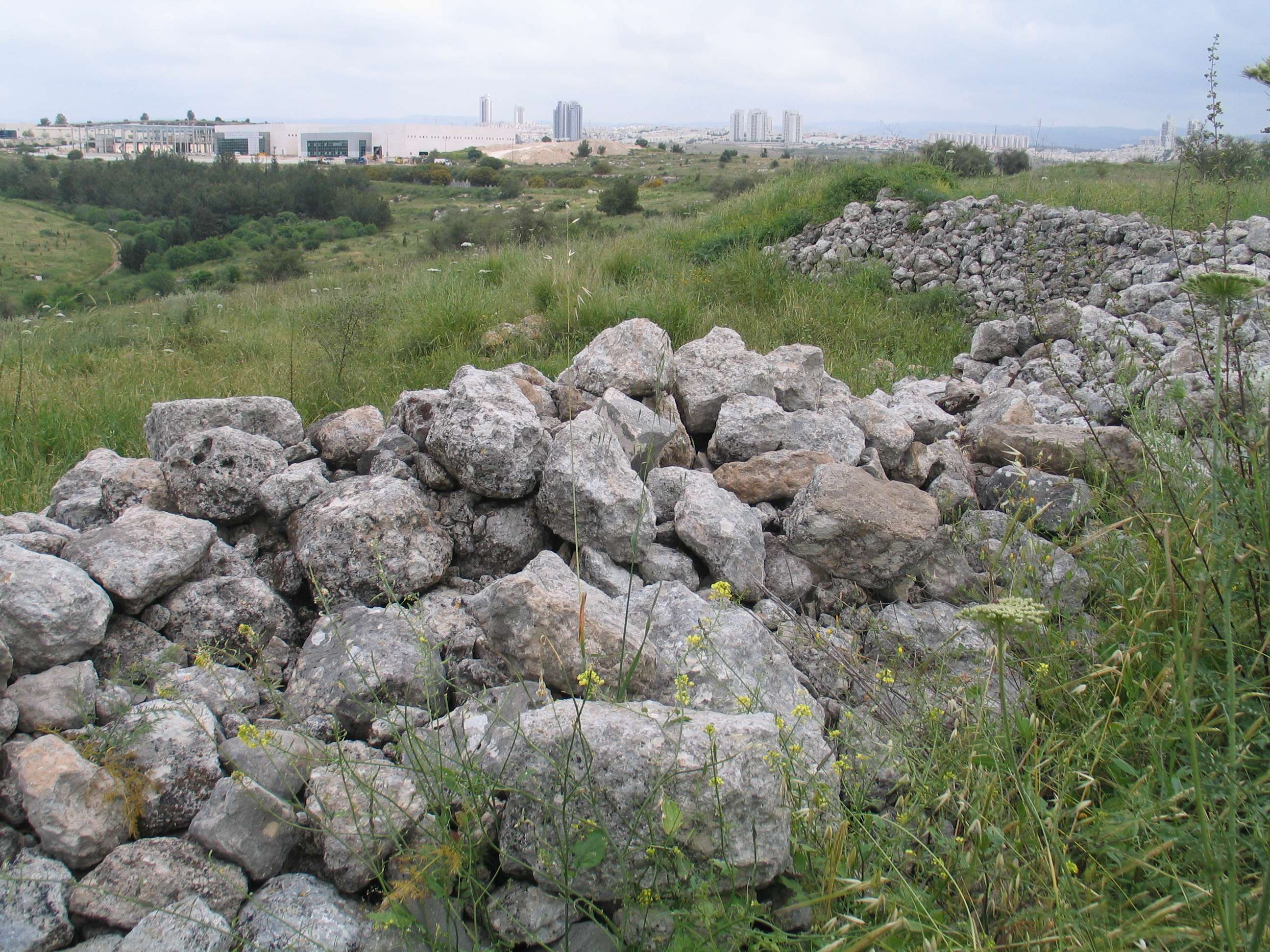 Hurvat Zecharia near Modiin, Israel.